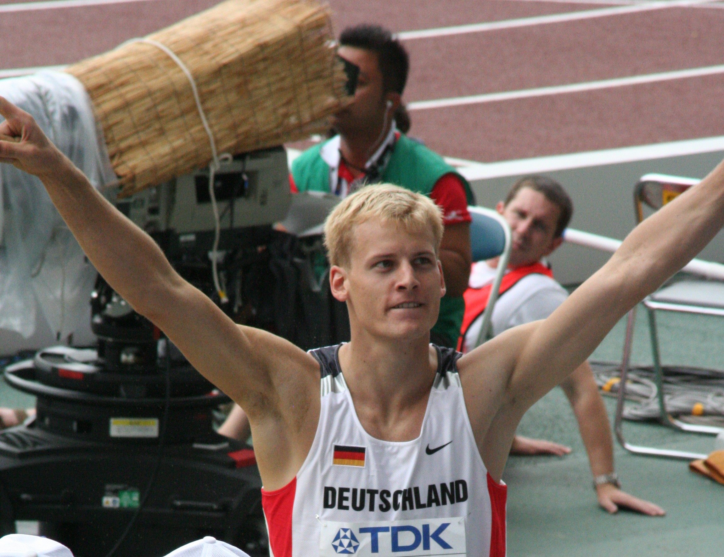 World Athletics Championships 2007 in Osaka - German long jumper Christian Reif after scoring a new personal best